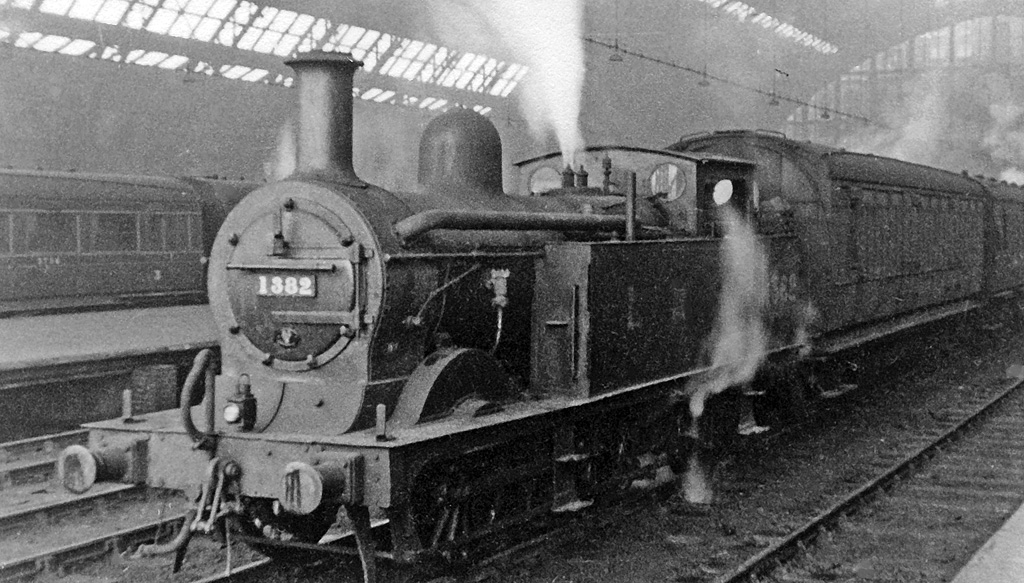 St Pancras Station, with 0-4-4T station pilot. View SE between Platforms 3 and 4, towards the buffer-stops; ex-Midland London terminus. Ex-Midland Johnson 1P 0-4-4T No. 1382, fitted with condenser for working down the Metropolitan Tunnels, stands in one of the centre roads. In the wintry gloom, the size of the great arch of the train-shed is evident. It was rather less splendid in 1948 than it is now , restored and preserved in the new St Pancras International of 2007, together with the clock over the concourse just visible at the end.